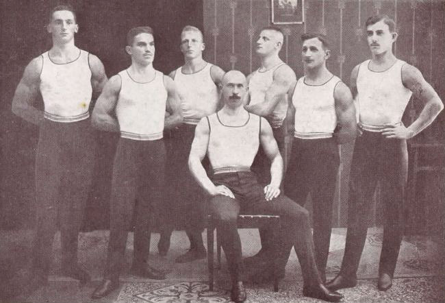 Slovene artistic gymnasts in 1909 (Viktor Murnik sitting)